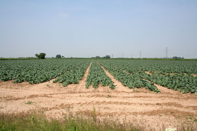 Farmland near Spalding. Brassicas growing at Shepherd's Farm